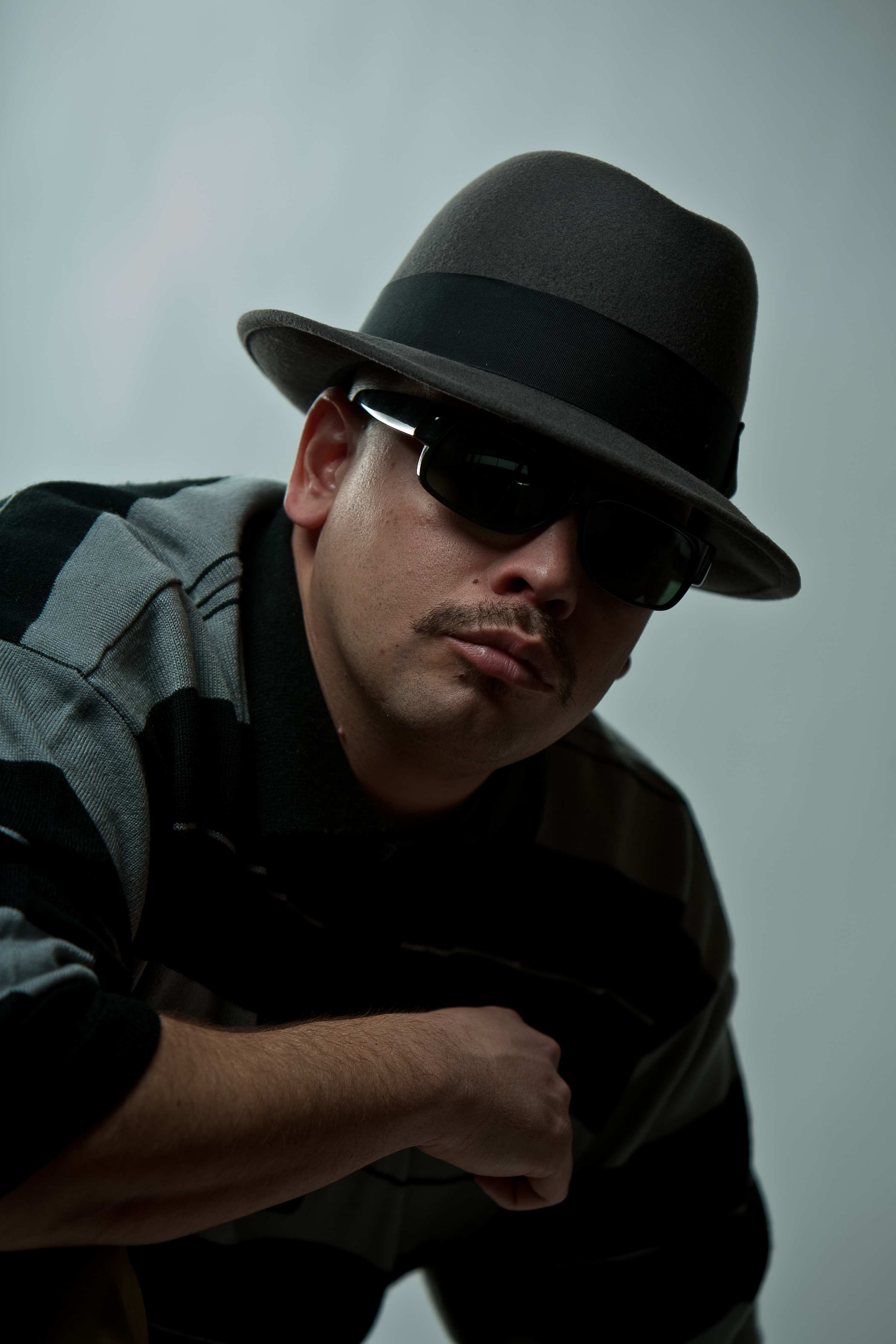 Serio